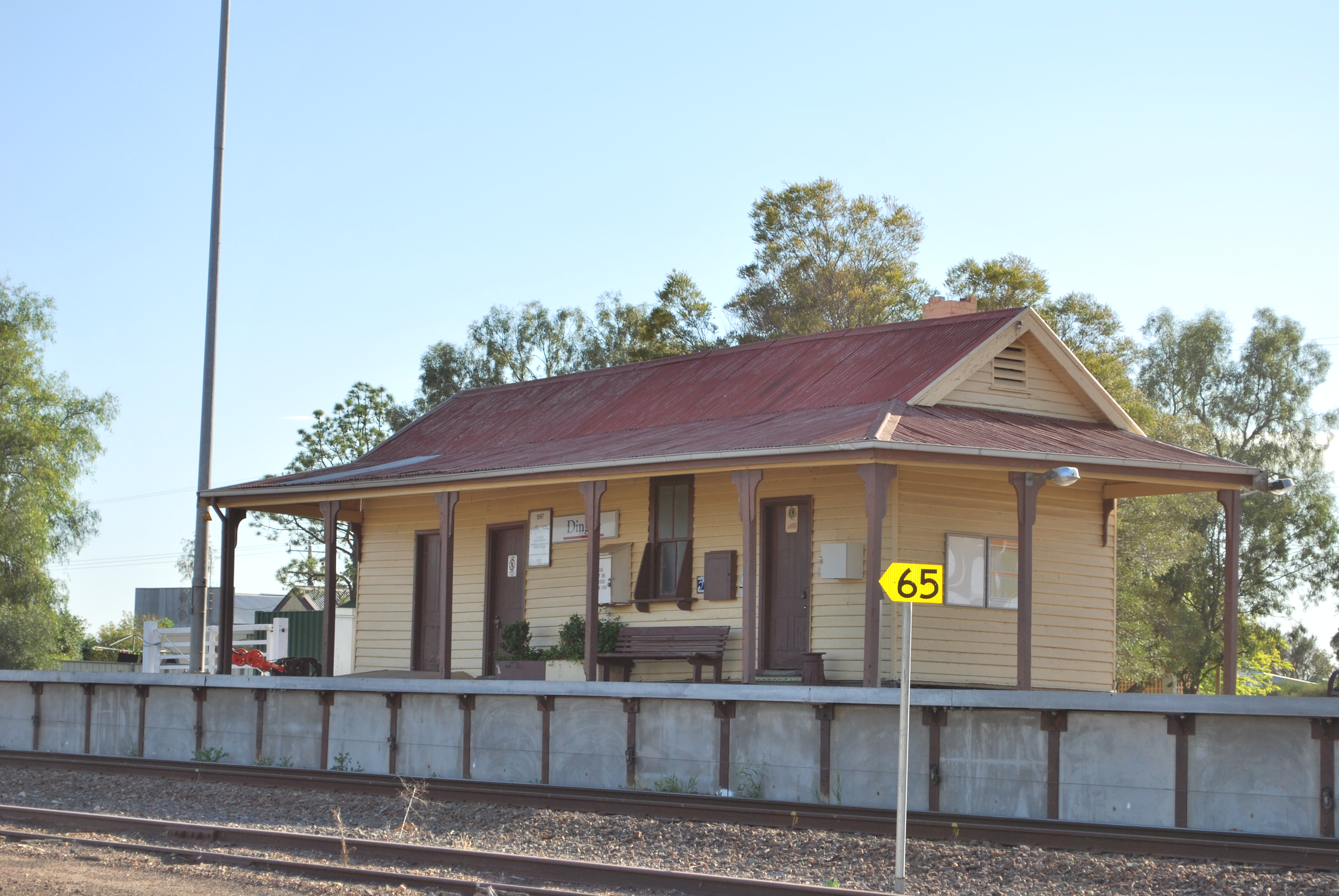 Train station at Dingee, Victoria